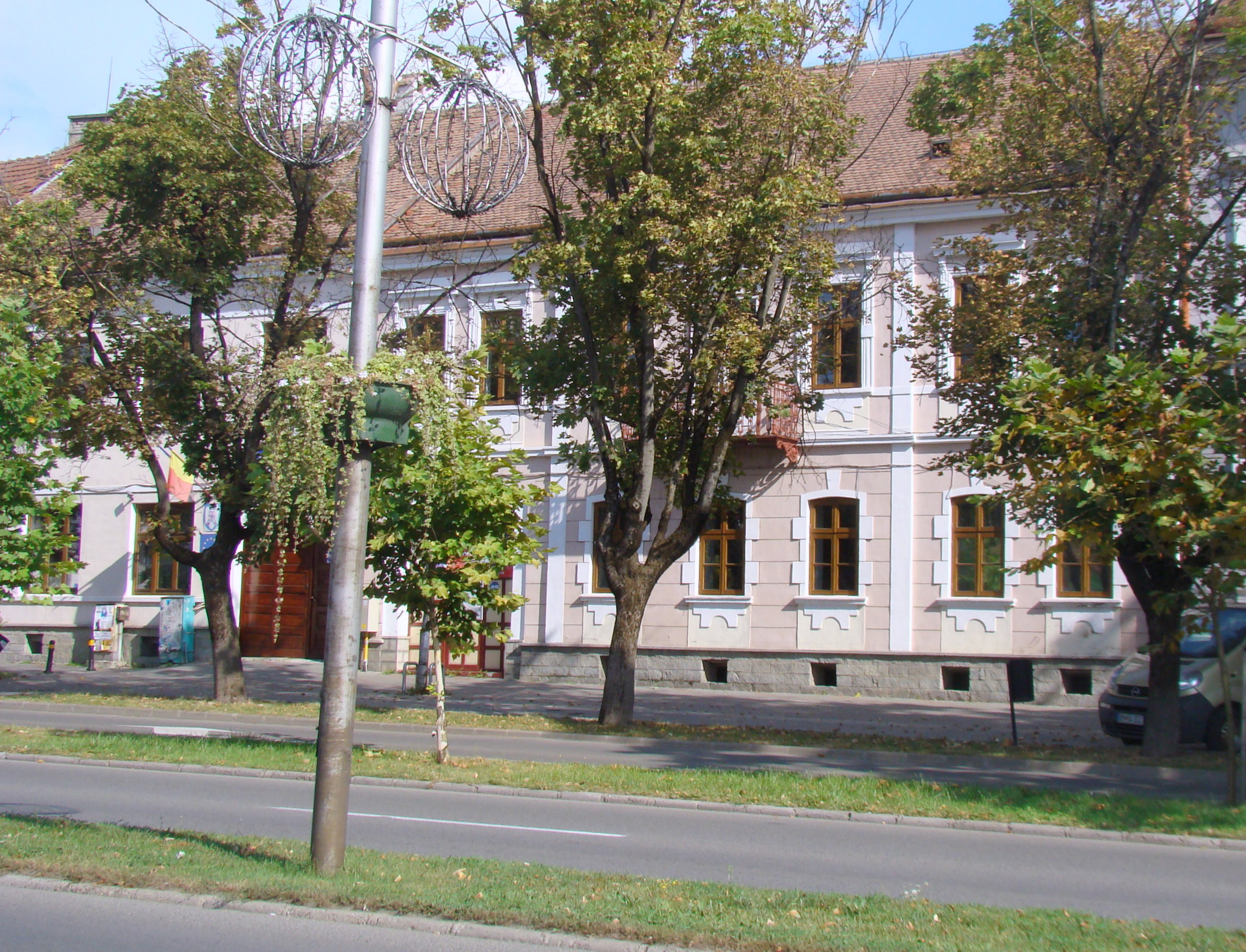 House, historic monument, in Bistrița, Bd. Independenței 3-5